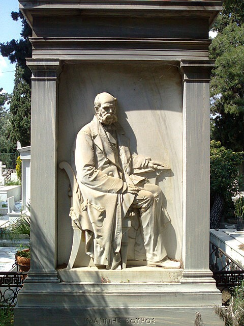 Tombstone of professor of medicine Ioannis Vouros